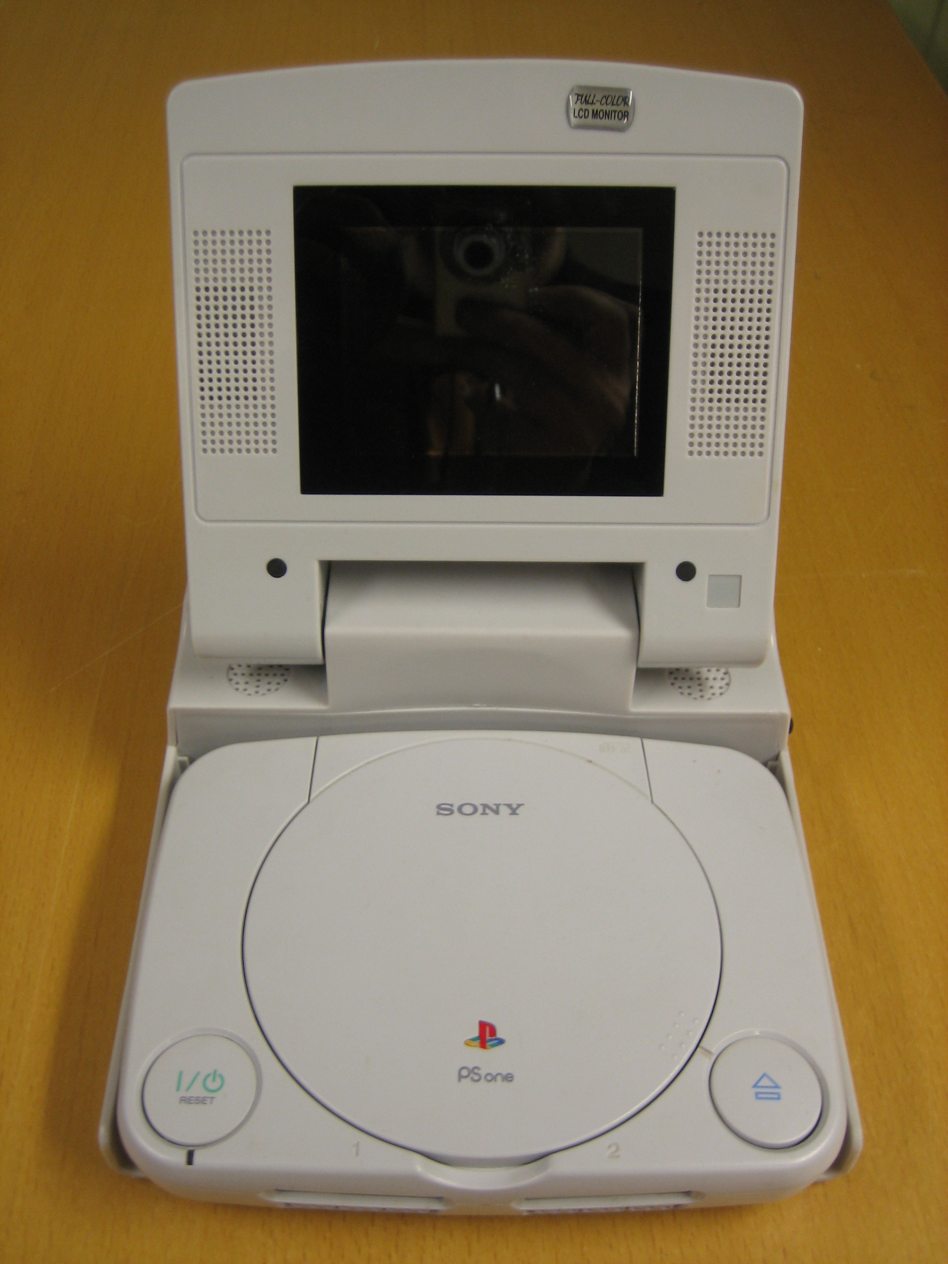 PS one video game console with Full Color LCD Monitor by Eclectic Multimedia. Photo by the uploader